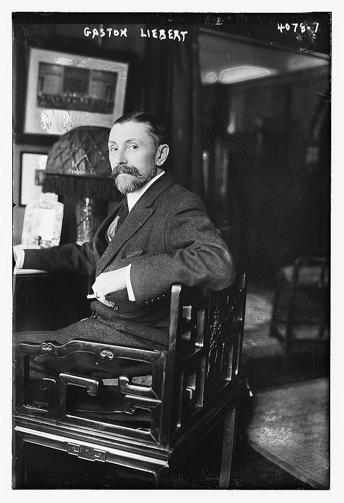 Gaston Ernest Liébert circa 1915